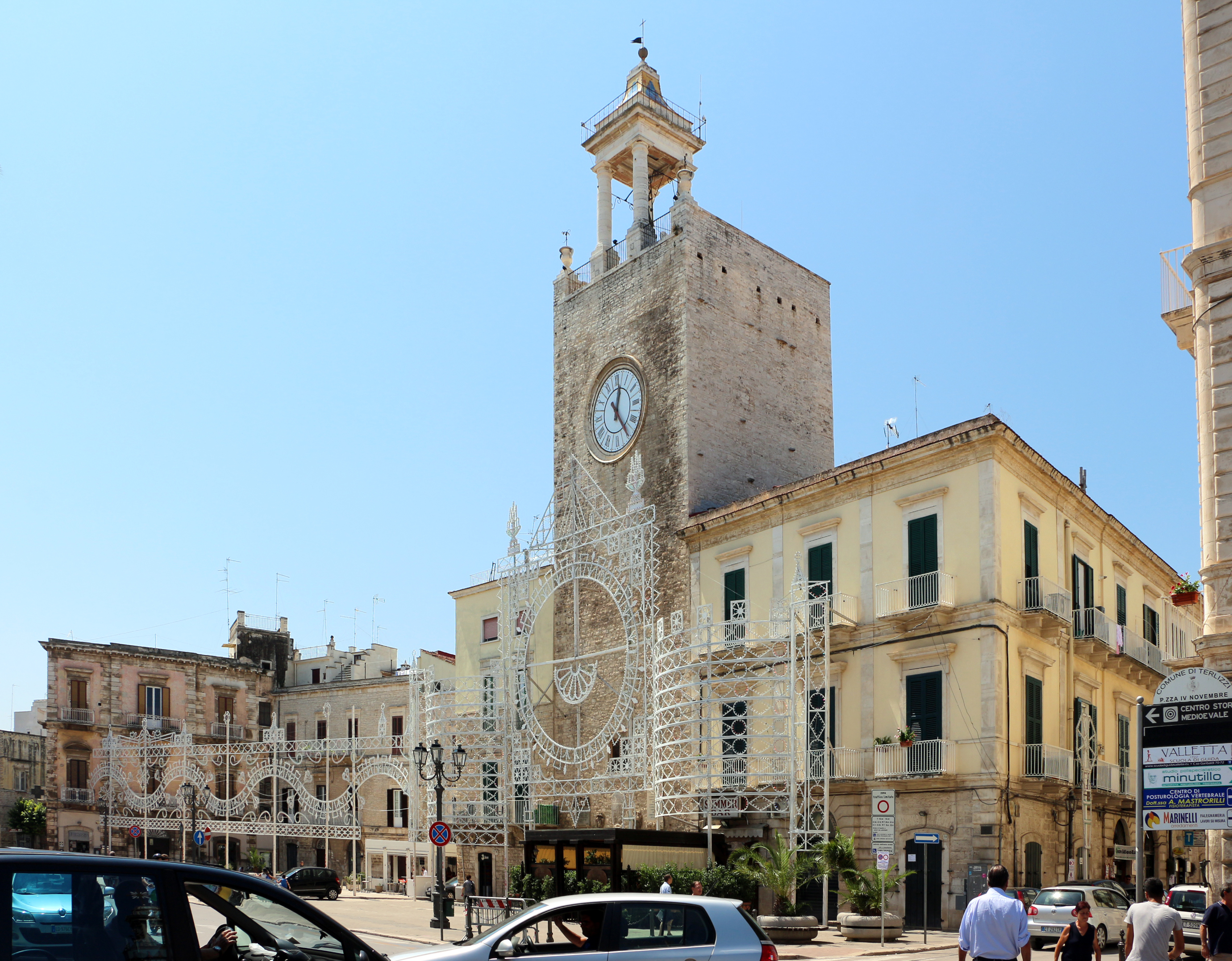 Terlizzi